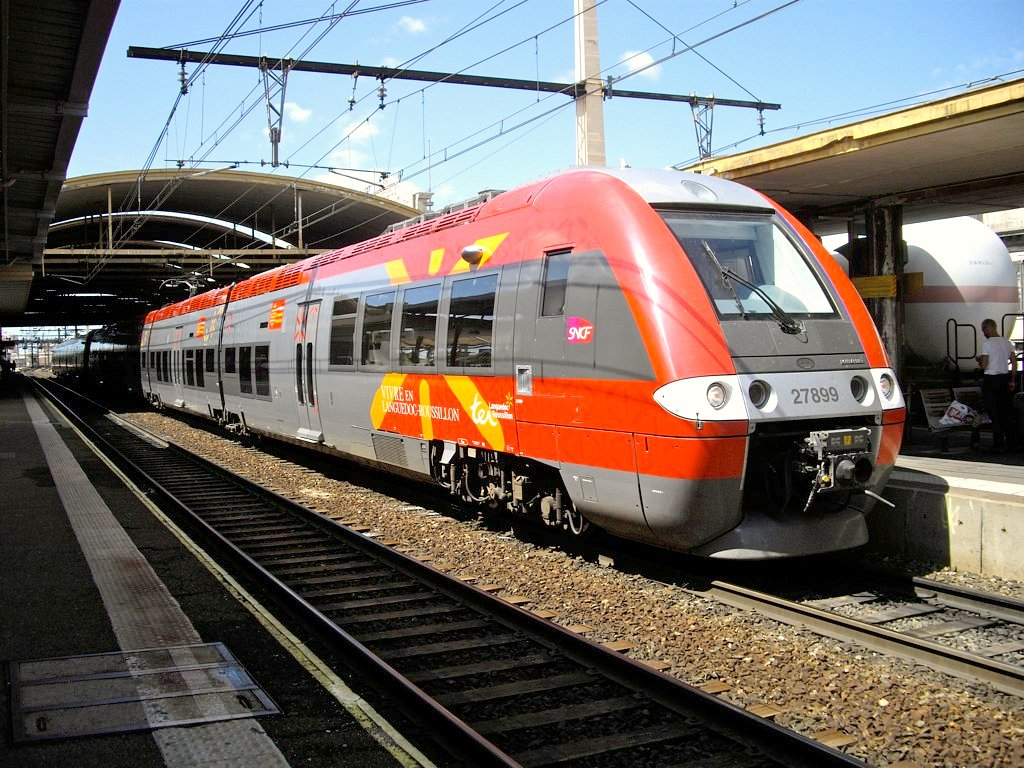 SNCF Z 27899 (AGV) in Gare de Nîmes.